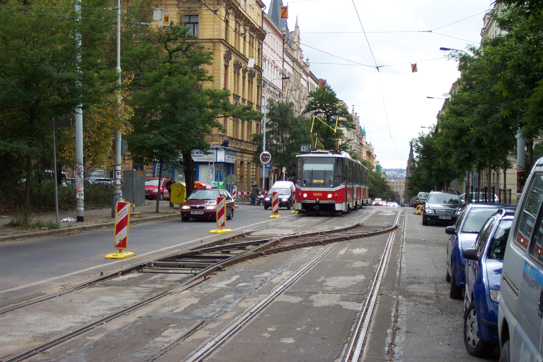 Tram mobile connection Californien, Prague-Vinohrady, CZ